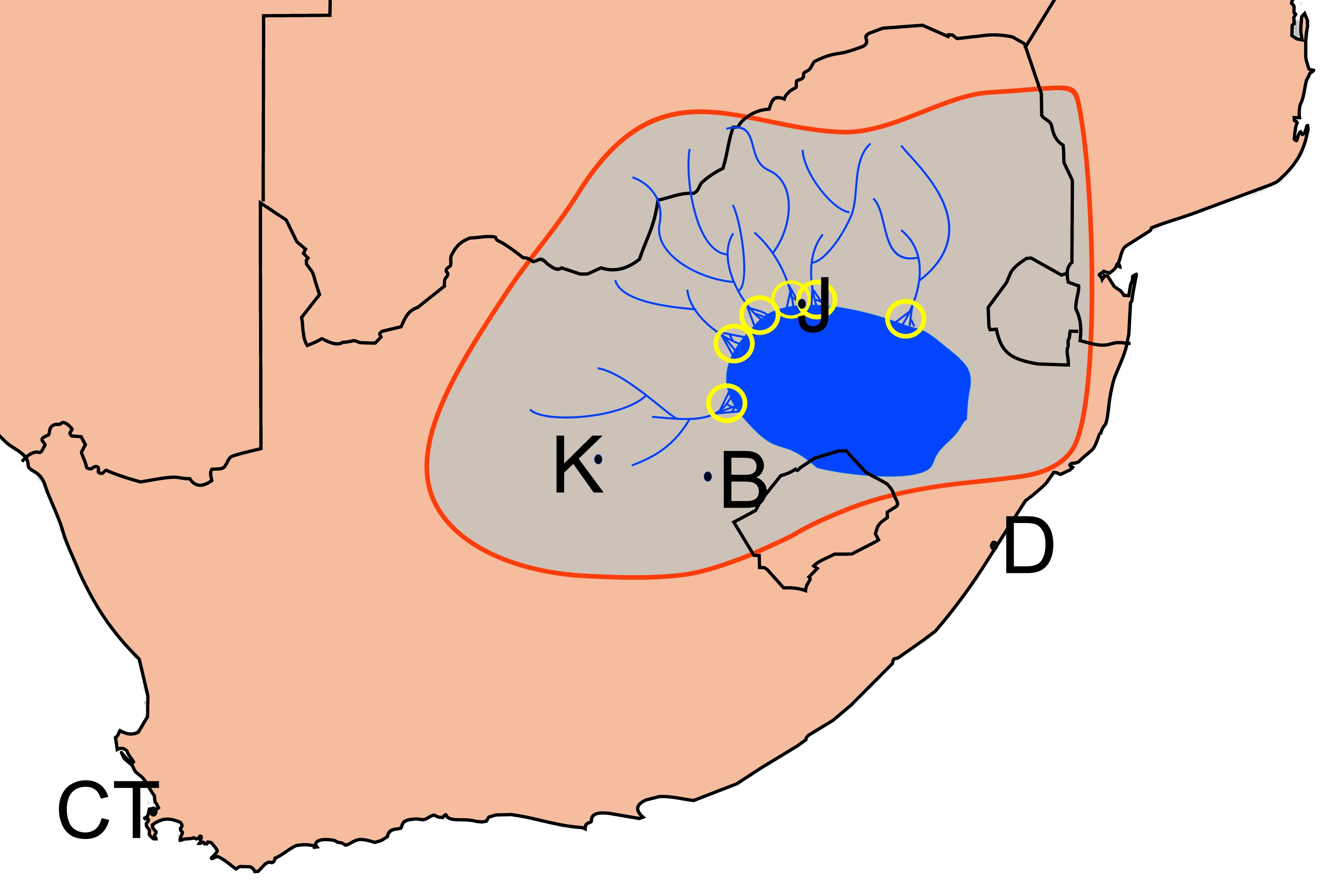 The position of the Kaapvaal Craton (khaki coloured area) beneath the South African landscape, and the shrunken, shallow Witwatersrand Sea (light blue) at the time that the gold was deposited in the broad, river deltas of 6 rivers that flowed into that sea, depositing all their heavier materials (cobbles, gold, uranium iron pyrite etc.) in the braided rivers of the deltas.Most of these gold deposits are deep under the South African surface, but form outcrops (at the surface) south of the Johannesburg City Centre.